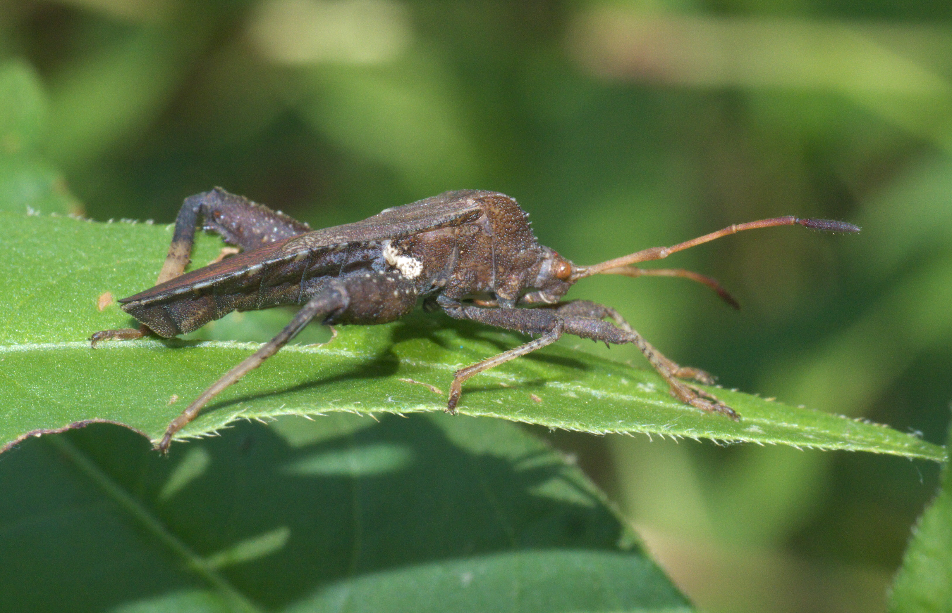 Euthochtha galeator, Helmeted Squash Bug, ID Confidence: 96